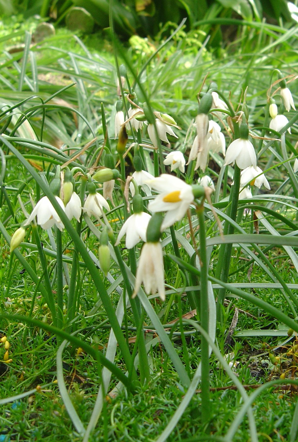 Acis nicaeensis in the author's garden